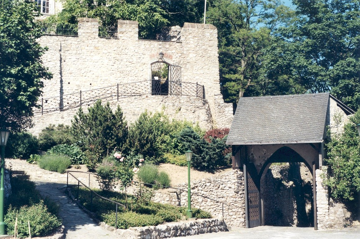 Kerpen Castle, inner yard